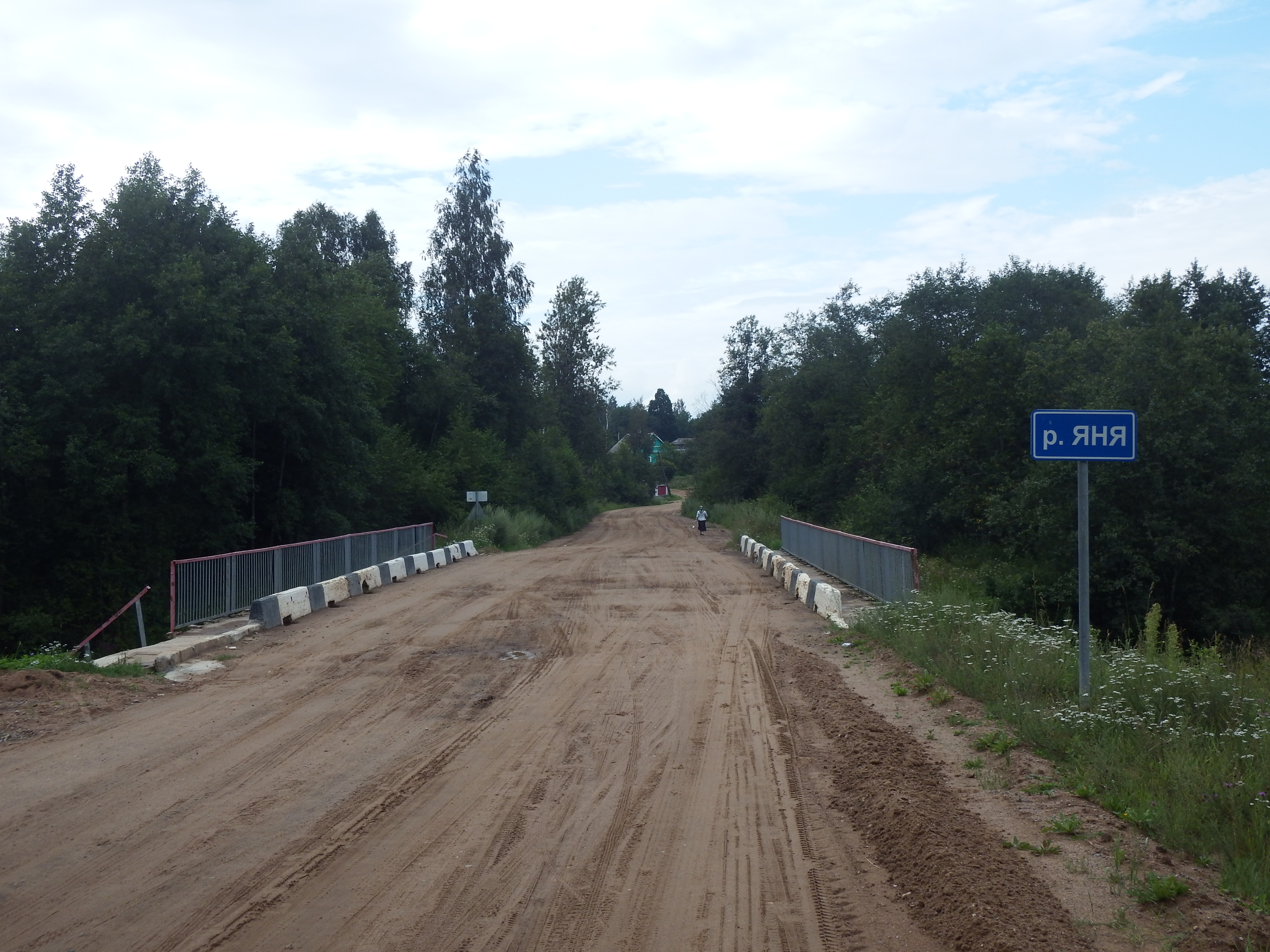 The bridge turough Yanya river in Zayanie country